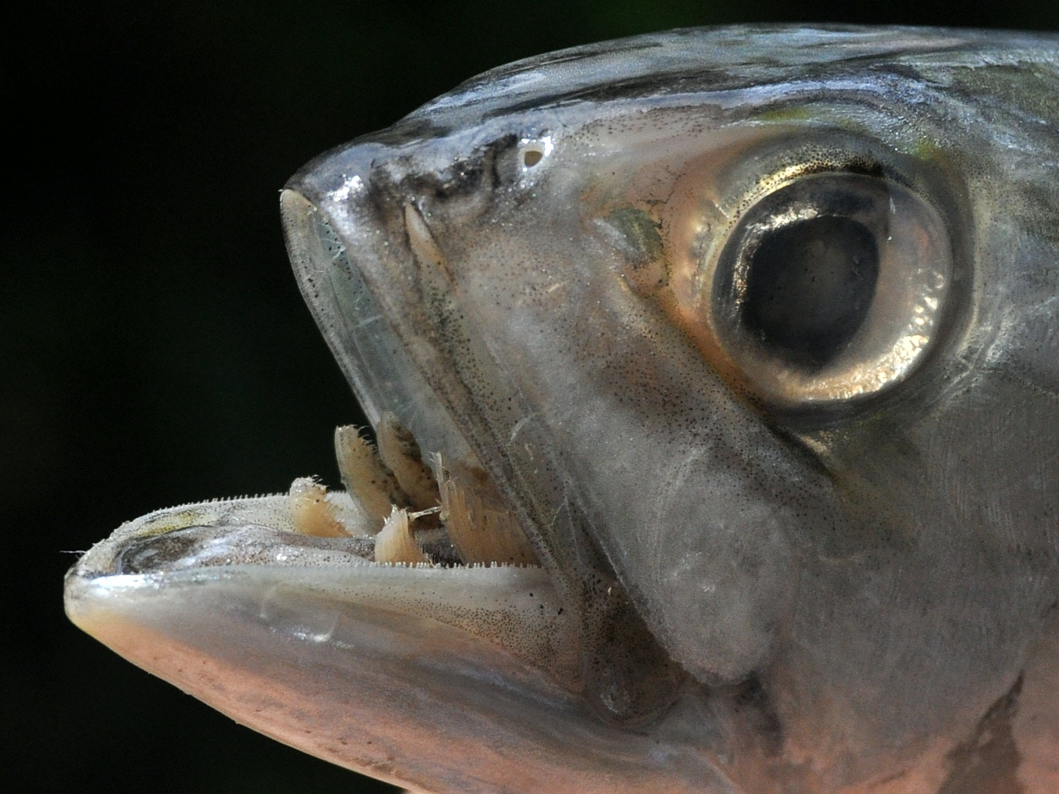 Indian mackerel Rastrelliger kanagurta from Jakarta, Indonesia. FL 185 mm. Gill rakers are visible through open mouth.